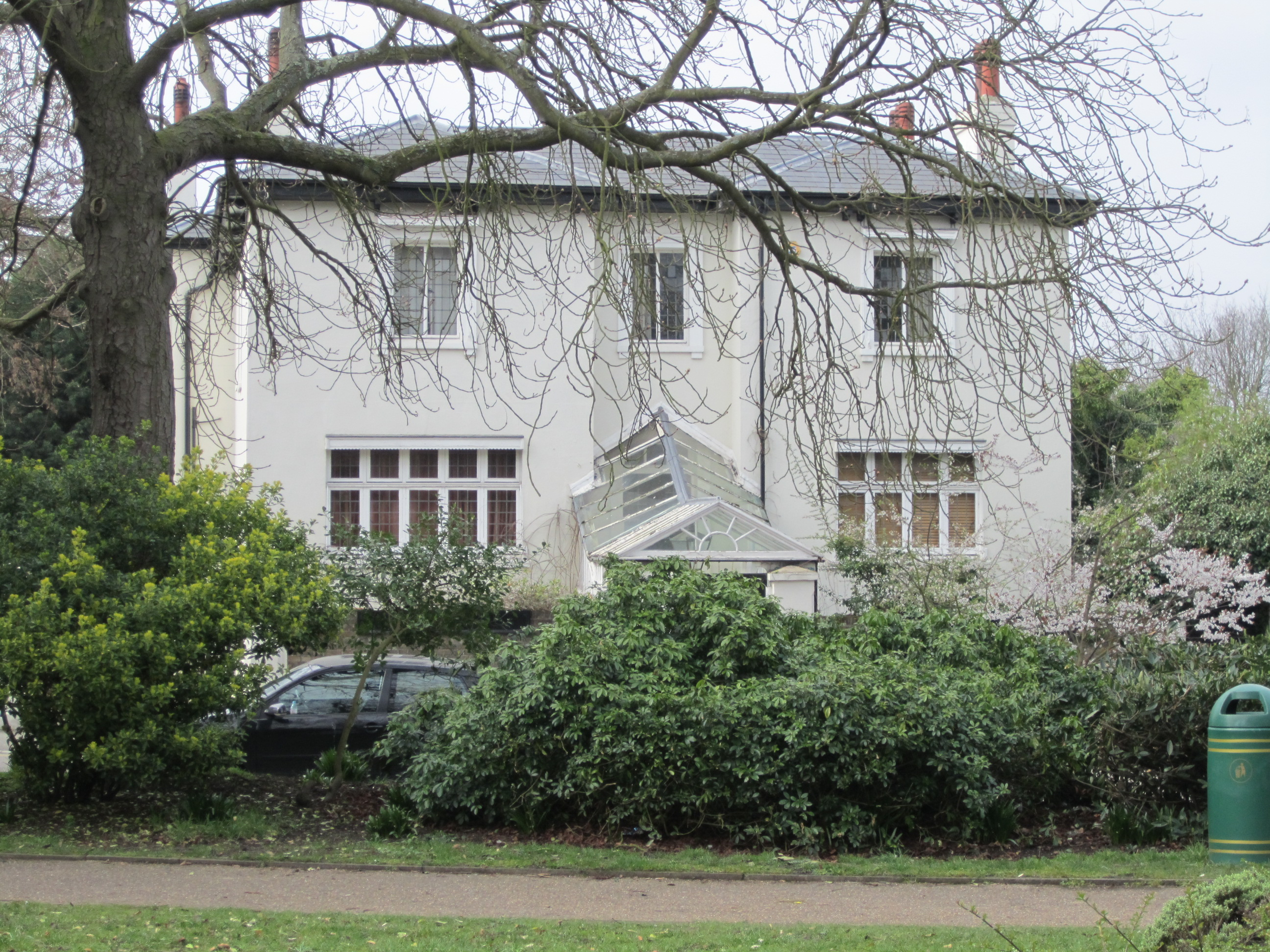 No. 5 The Crescent Surbiton, seen from Claremont Crescent Gardens (Pooley period).